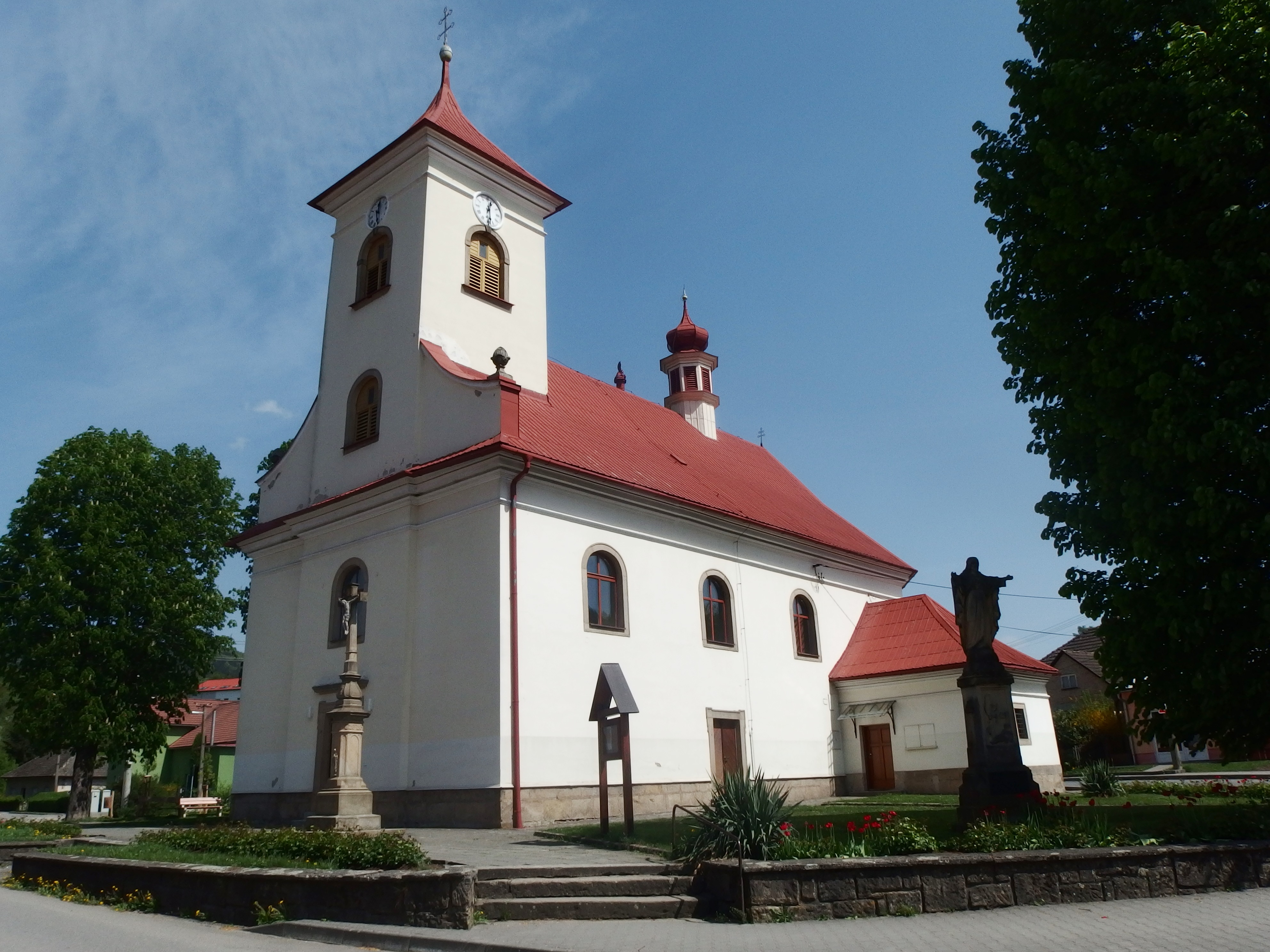 Kašava in Zlín District, Czech Republic. St. Catherine-church. This photograph was taken within the scope of the third year of the 'Czech Municipalities Photographs' grant.